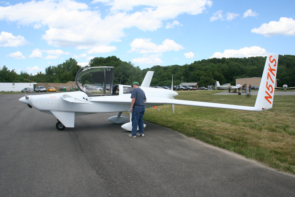 This is a picture of a Rutan Defiant on the flight line at an RV and Canard fly-in. Taken at Lawrence Municipal Airport on June 30th, 2007.